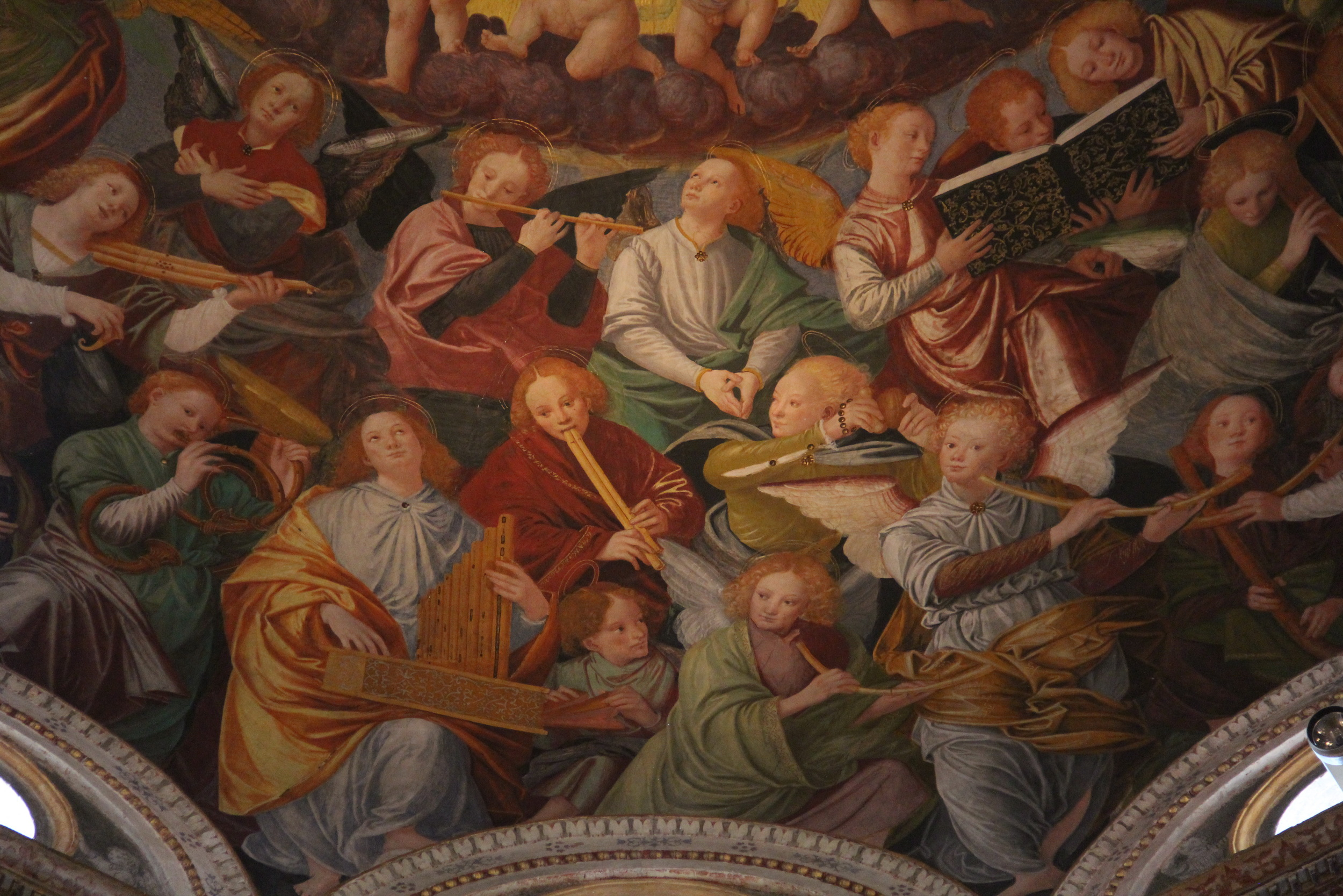 Santuario della Beata Vergine dei Miracoli, Saronno, Lombardy, Italy Santuario della Madonna dei Miracoli Native nameSantuario della Beata Vergine dei MiracoliLocationSaronno, Lombardy, ItalyCoordinates45° 37′ 34.5″ N, 9° 01′ 32.02″ E Established8 May 1498Web page control : Q3471763 VIAF: 131787309 LCCN: nr88009495 WorldCat institution QS:P195,Q3471763